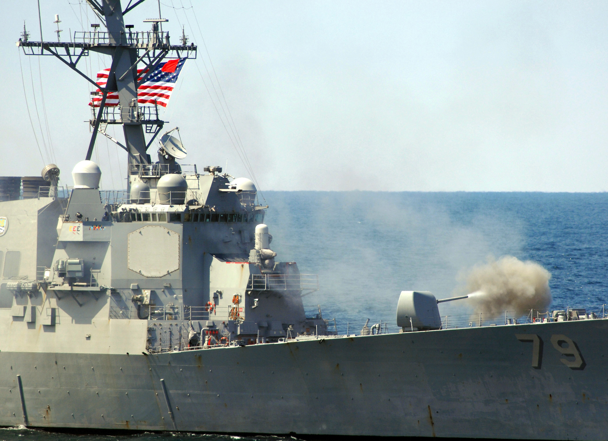 ATLANTIC OCEAN (April 6, 2007) - Arleigh Burke-class guided missile destroyer USS Oscar Austin (DDG 79) fires her 5-inch gun during a gunfire demonstration as she transits alongside Nimitz-class aircraft carrier USS Harry S. Truman (CVN 75). Truman is underway conducting Tailored Ship's Training Availability (TSTA), a standard used to evaluate a ship's readiness for deployment. U.S. Navy photo by Mass Communication Specialist 3rd Class Kristopher Wilson (RELEASED)